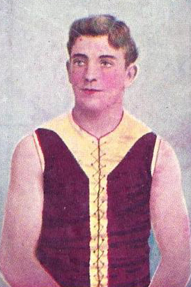 Cigarette card of Barclay Bailes from the 1905 Wills Past and Present Champions series.